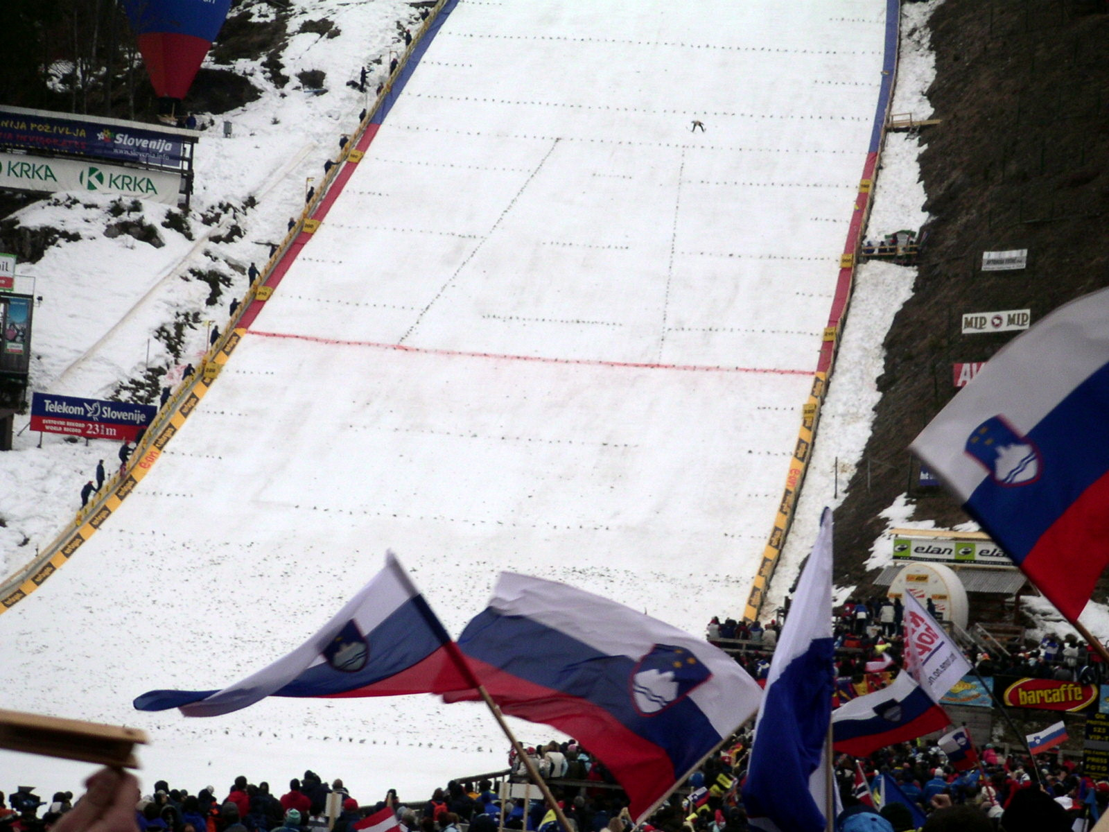 Sky Flying Championship in Planica, Slovenia